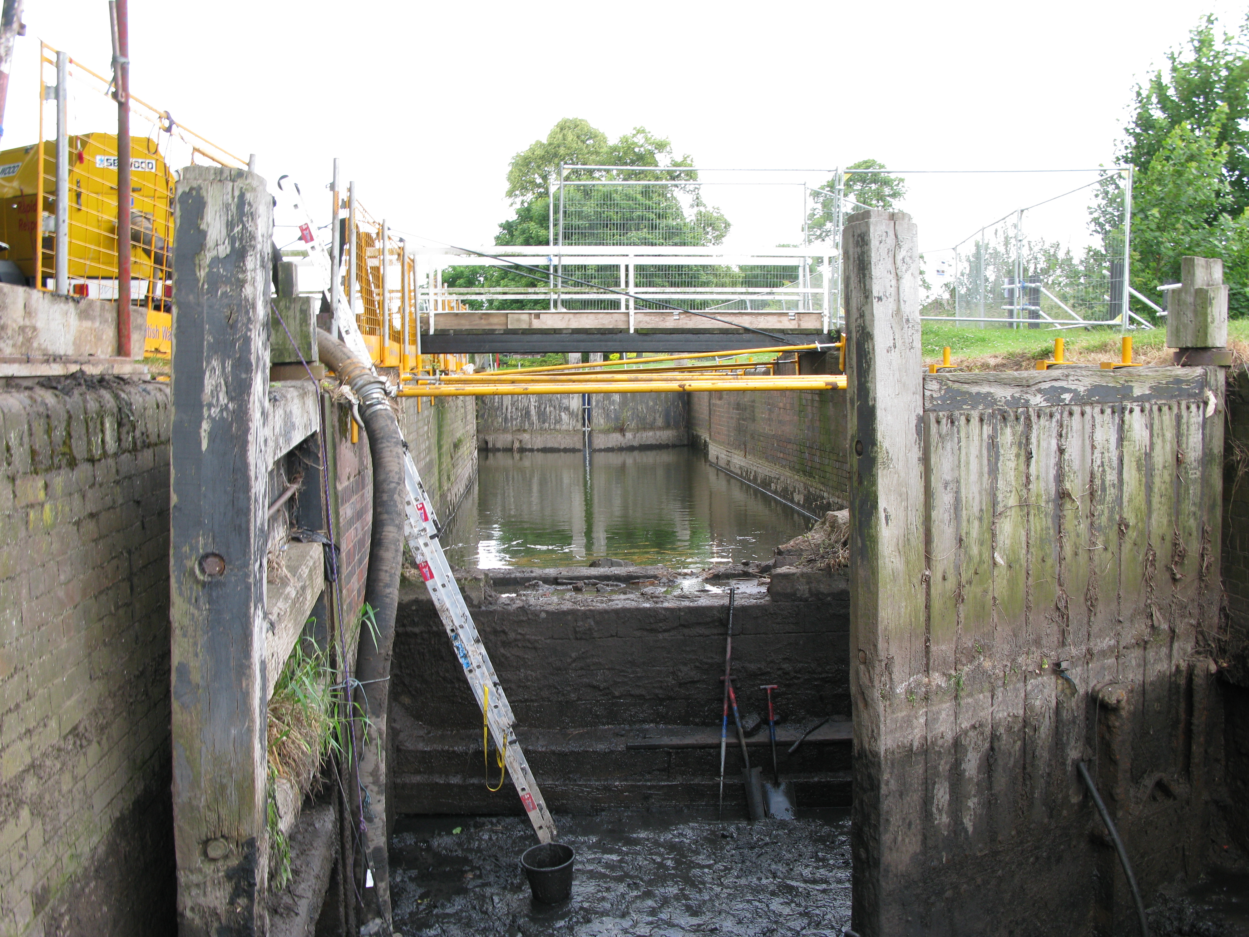 Photo of the barge lock on the Droitwich Canal undergoing restoration